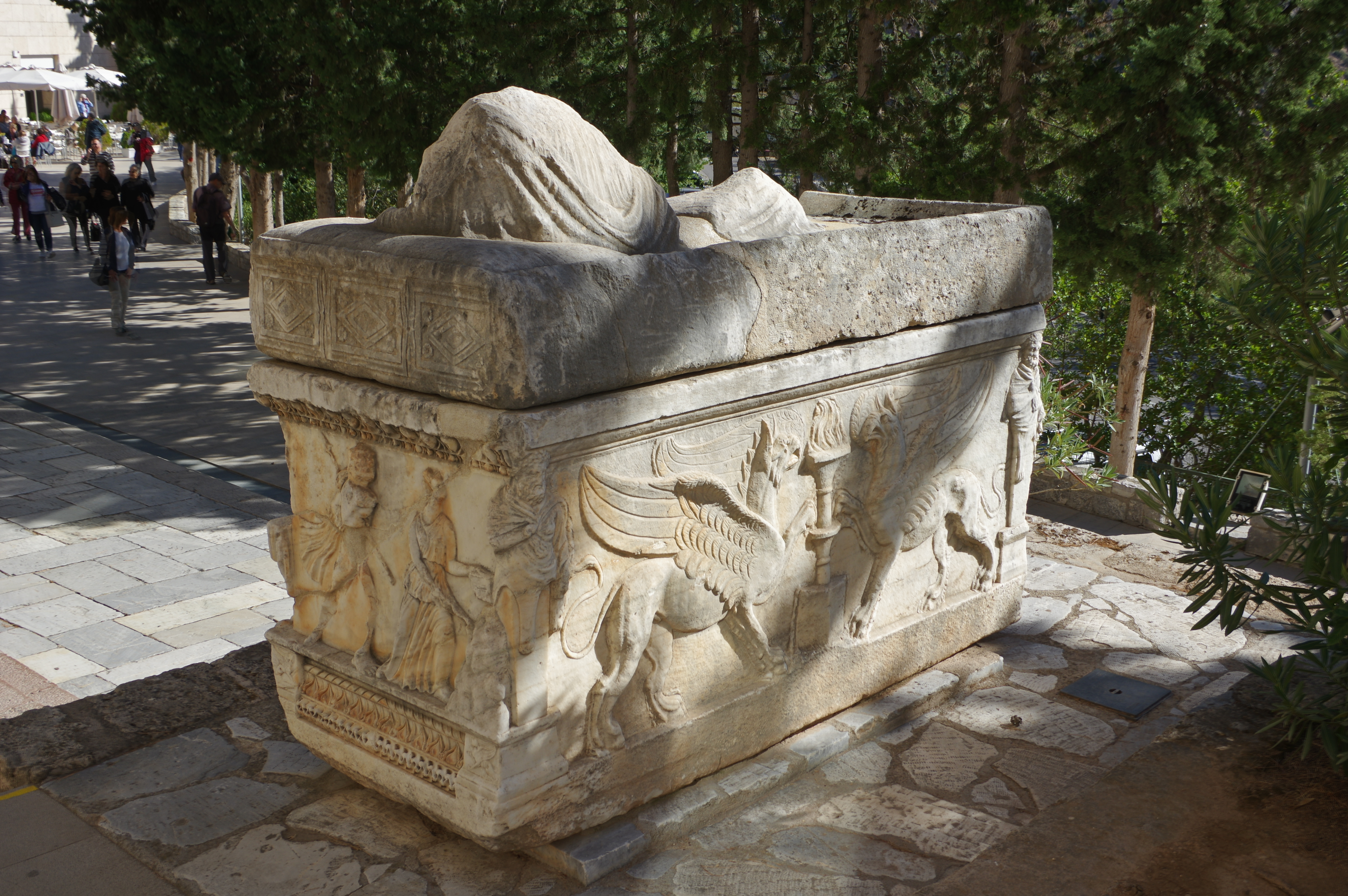 Greece, Delphi, sarcophagus in front of the museum